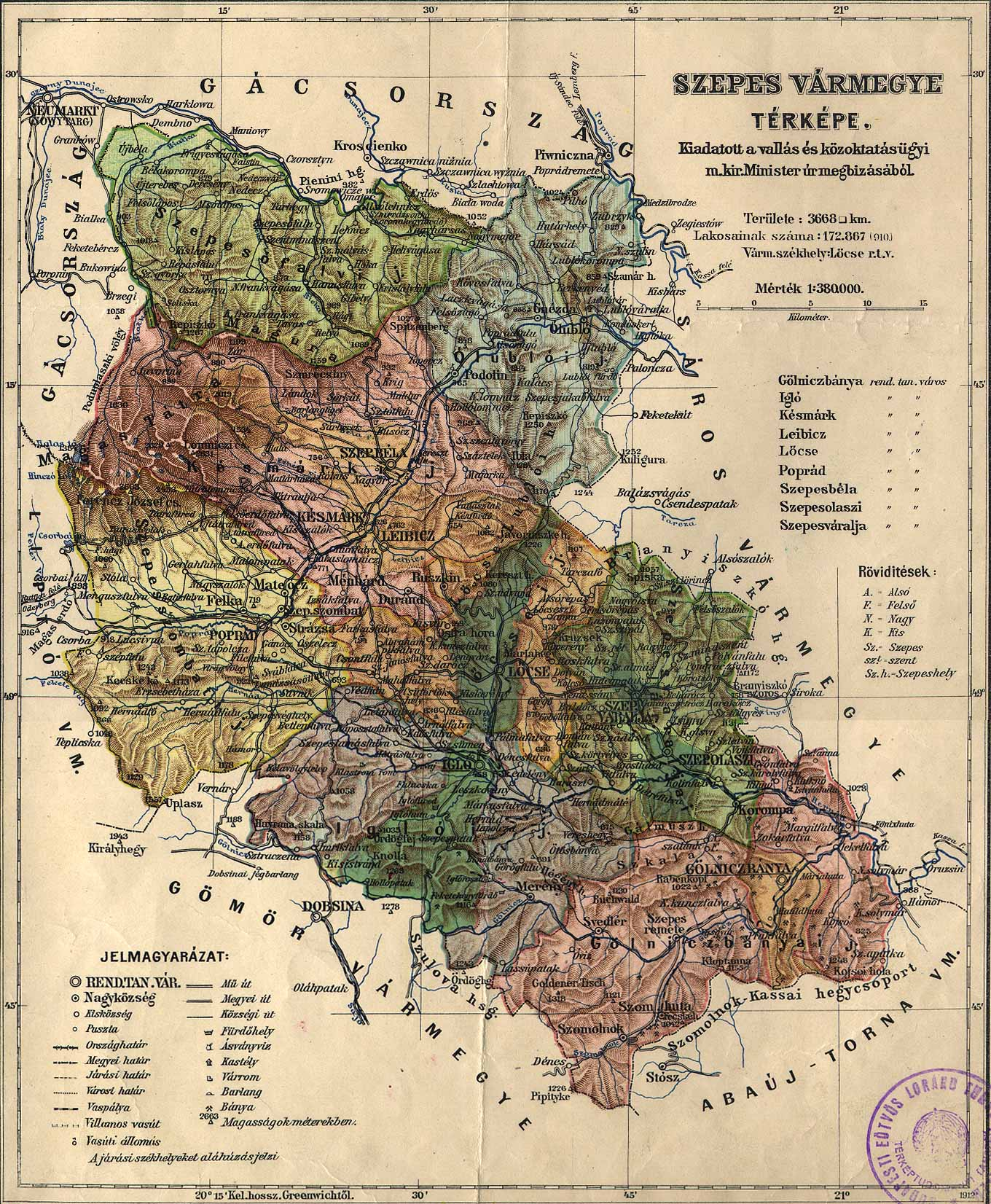 Administrative map of the county of Szepes in the Kingdom of Hungary